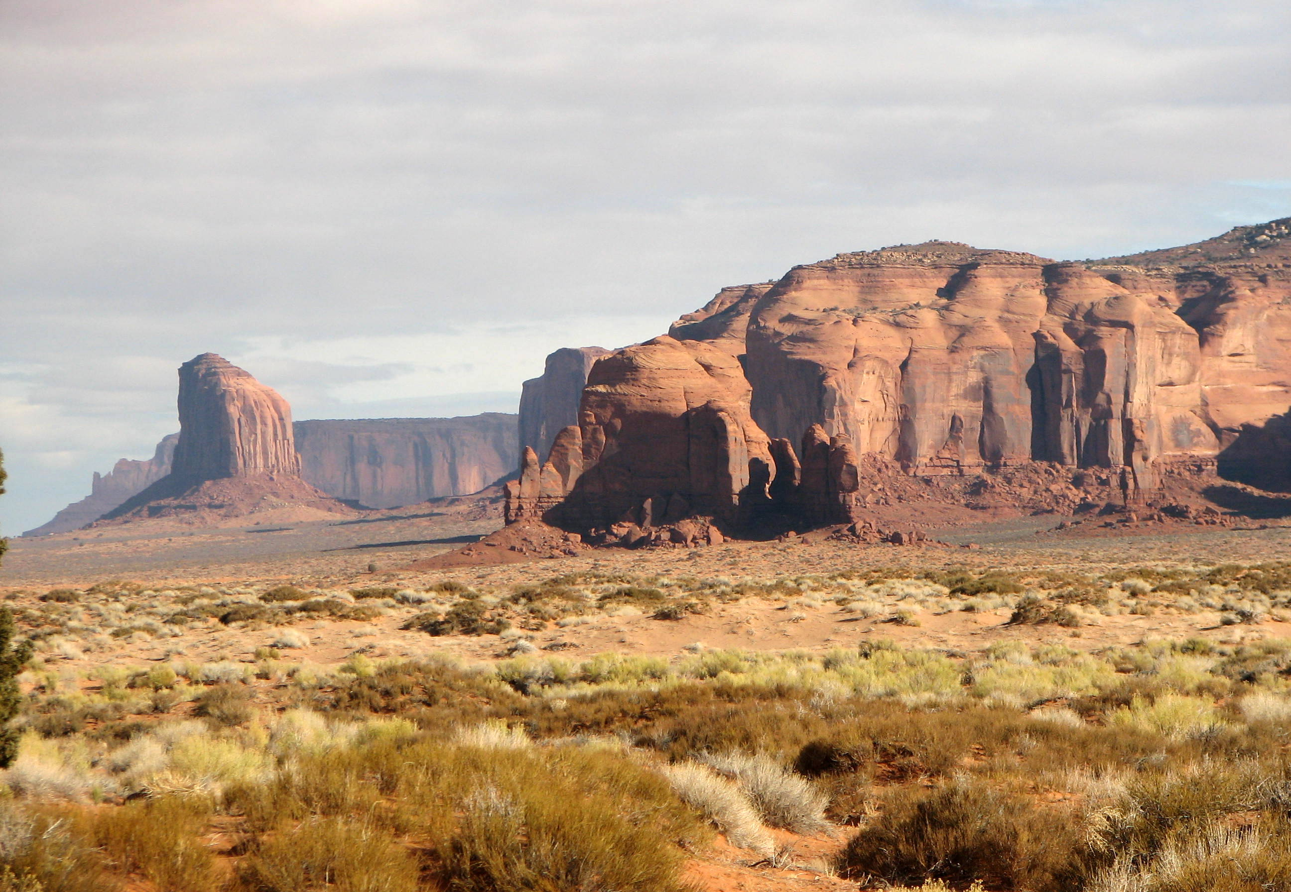 Mystery Valley in Monument Valley Navajo Tribal Park, Arizona, USA